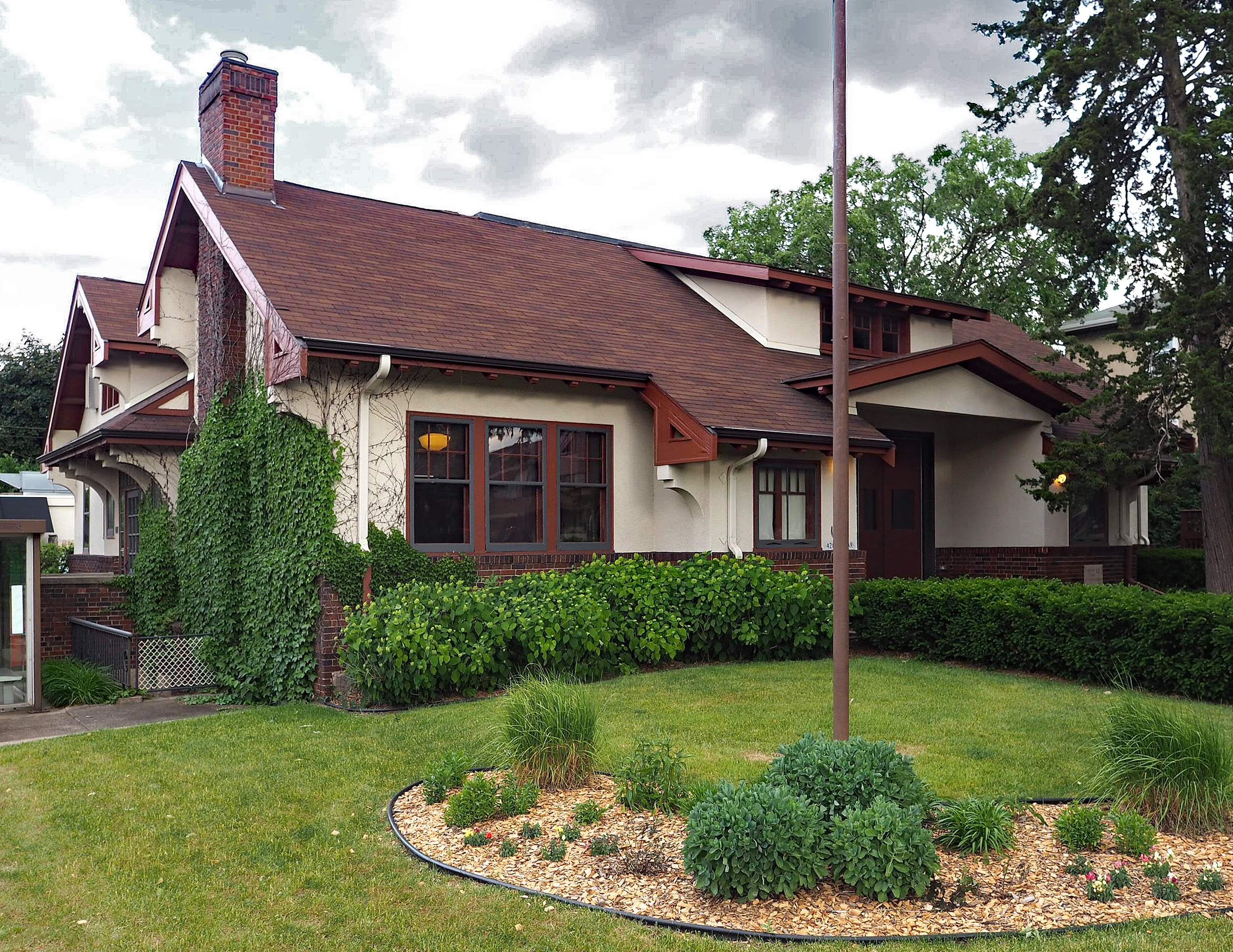 The former Minneapolis Fire Station 13 (now the offices of HCM Architects), 4201 Cedar Ave S, Minneapolis, Minnesota, USA. Viewed from the northwest.